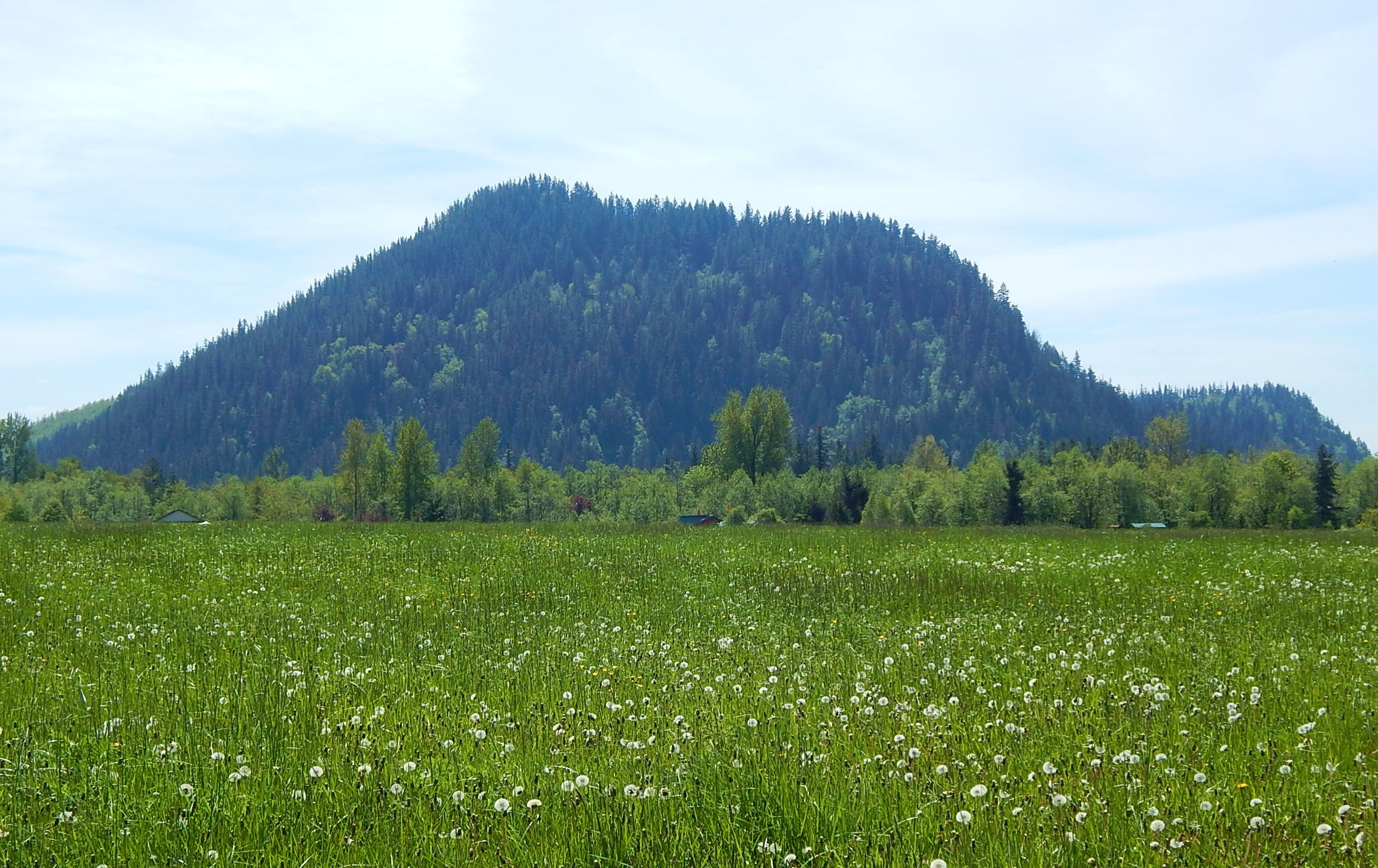 Pinnacle Peak is south of Enumclaw, WA Elevation 1,801' Seen from SE 456th St